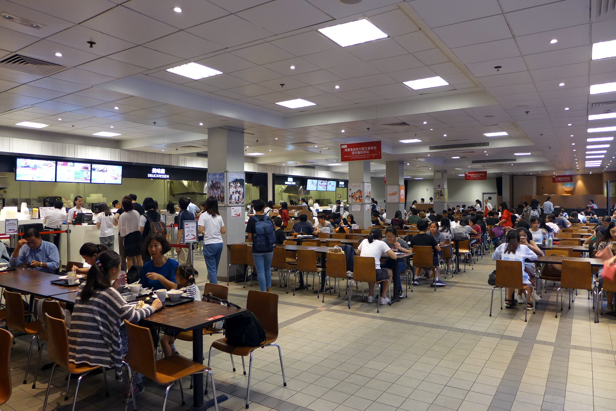 HKBU Jocket Club Canteen